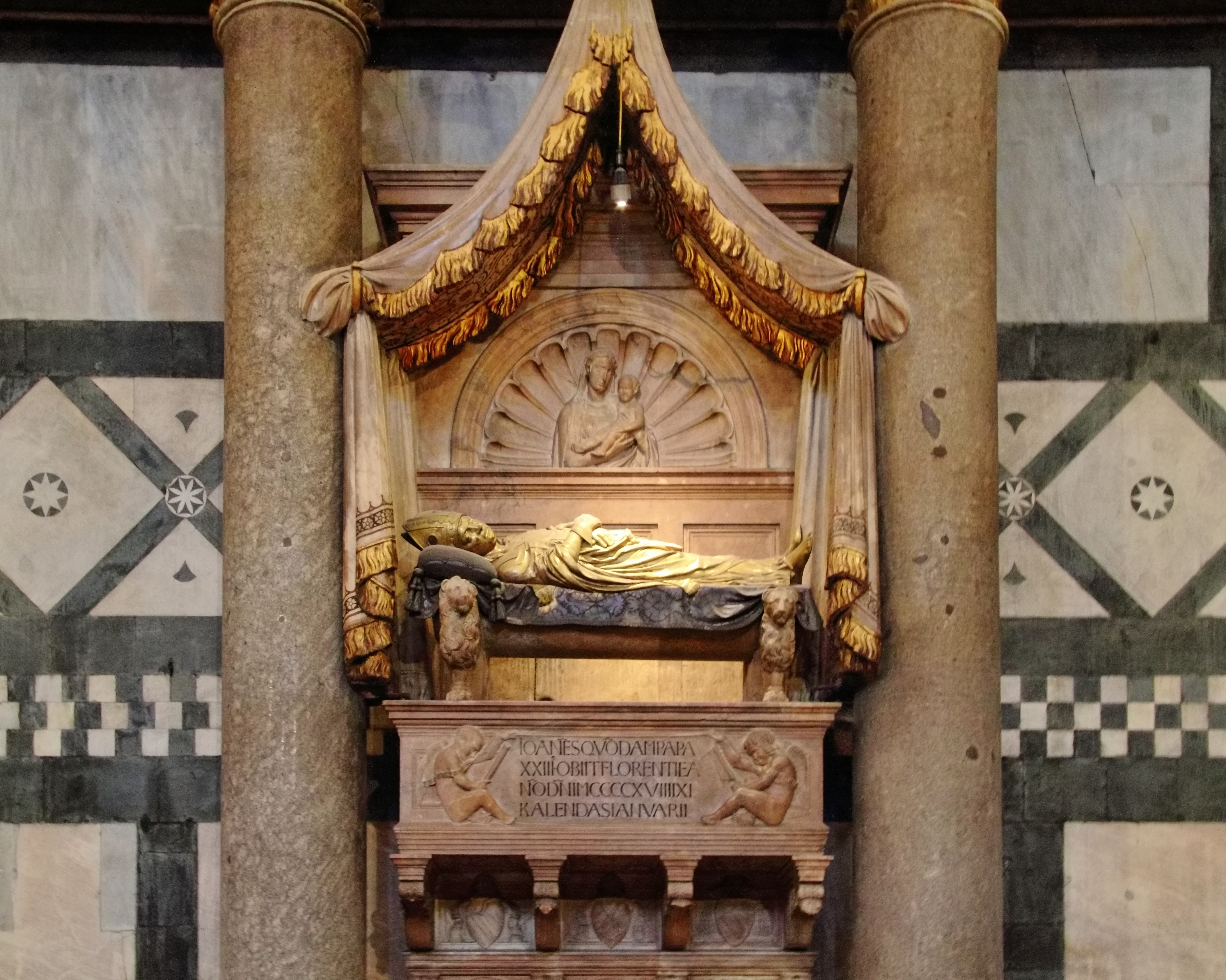 Italy: Florence Baptistery (Battistero di San Giovanni), baptistery of the Florence Cathedral